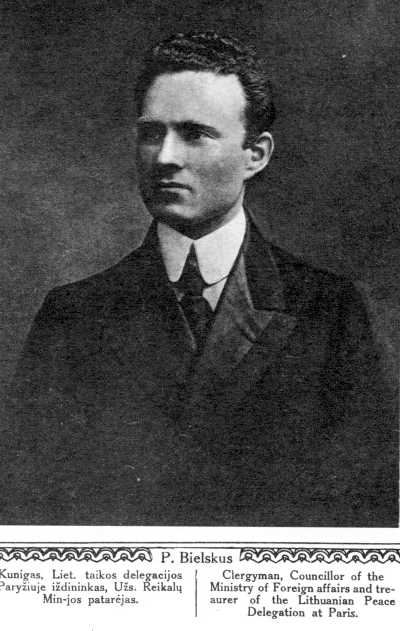 Pijus Bielskus, philosopher of LithuaniaLietuvių: Pijus Bielskus, Lietuvos kunigas, filosofijos mokslų daktaras, profesorius, Lietuvos Prezidento kanceliarijos viršininkas